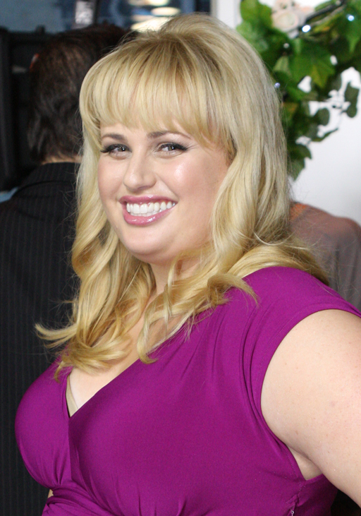 Rebel Wilson at the A Few Best Men movie premiere in Sydney.